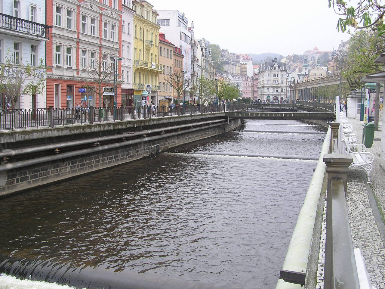 The Teplá River in Karlovy Vary, Czech Republic.